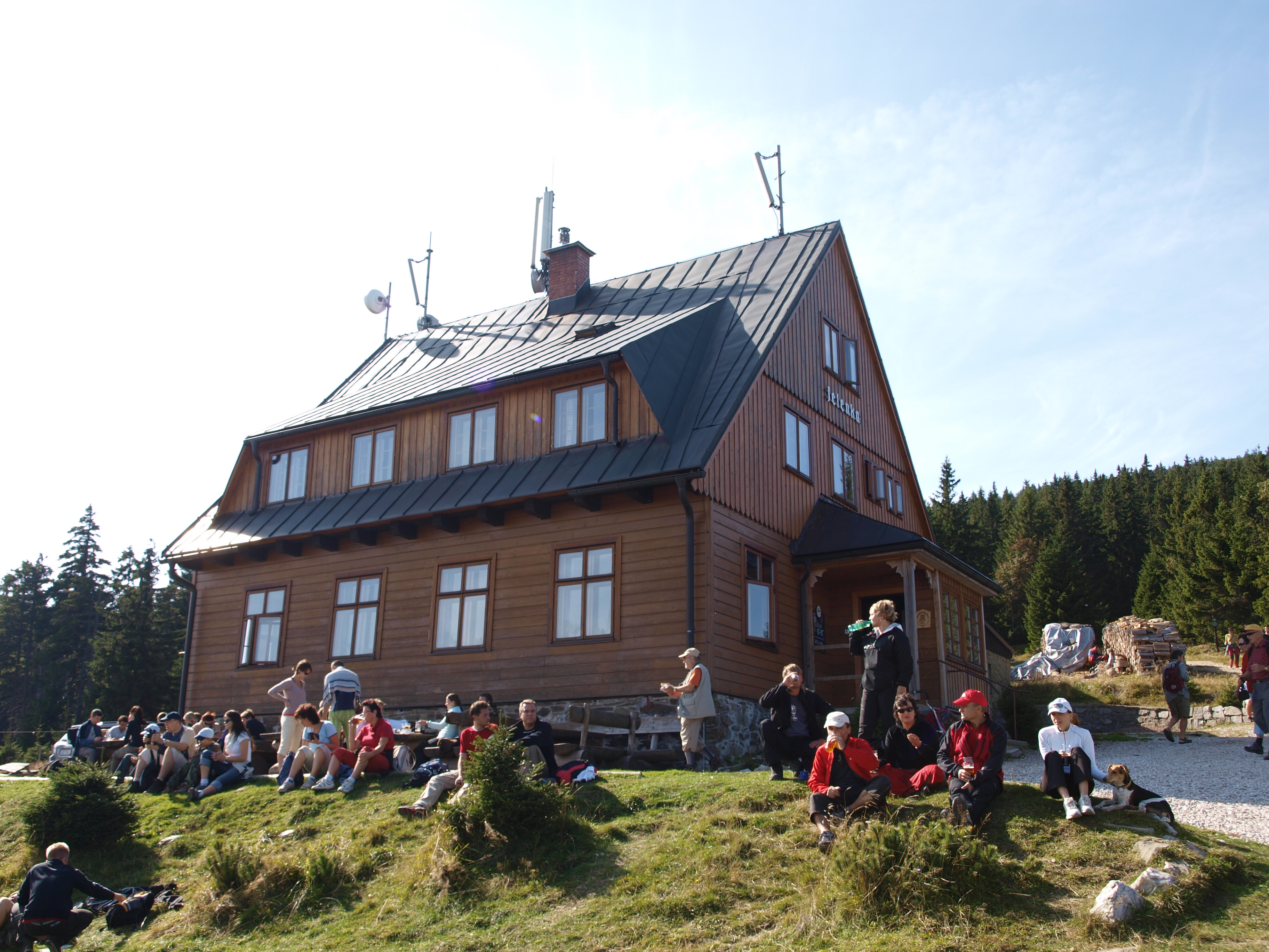 Bouda Jelenka, Krkonoše